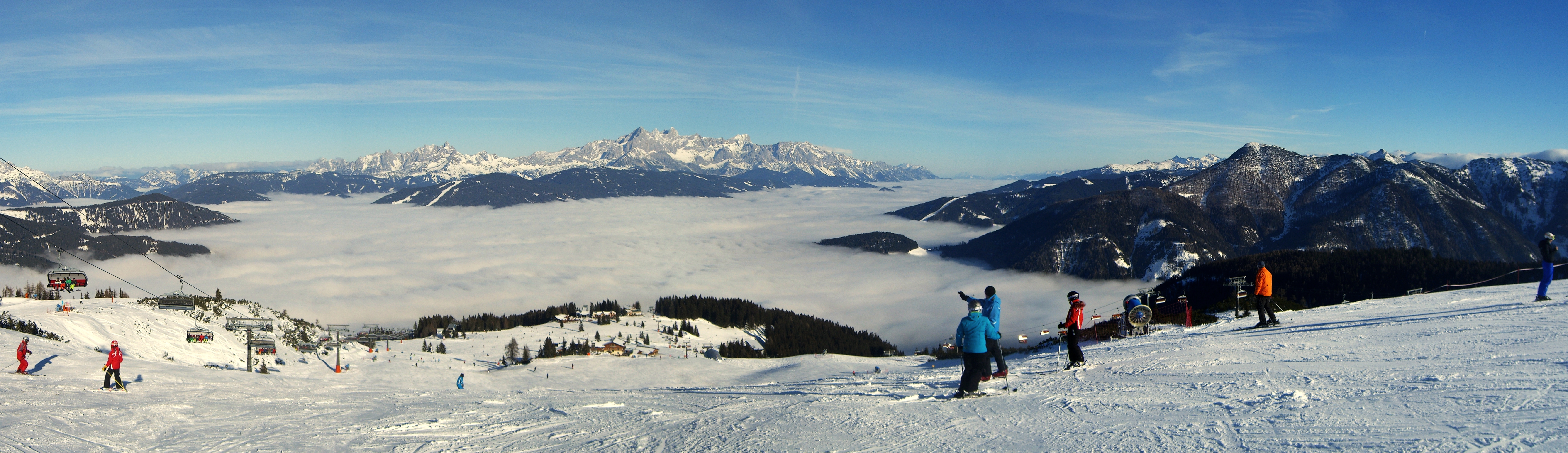 Note:This cannot be a view from Planai.